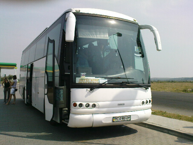 Orlandi Domino 2001 coach on chassis Iveco EuroRider in Ivano-Frankivsk, Ukraine.